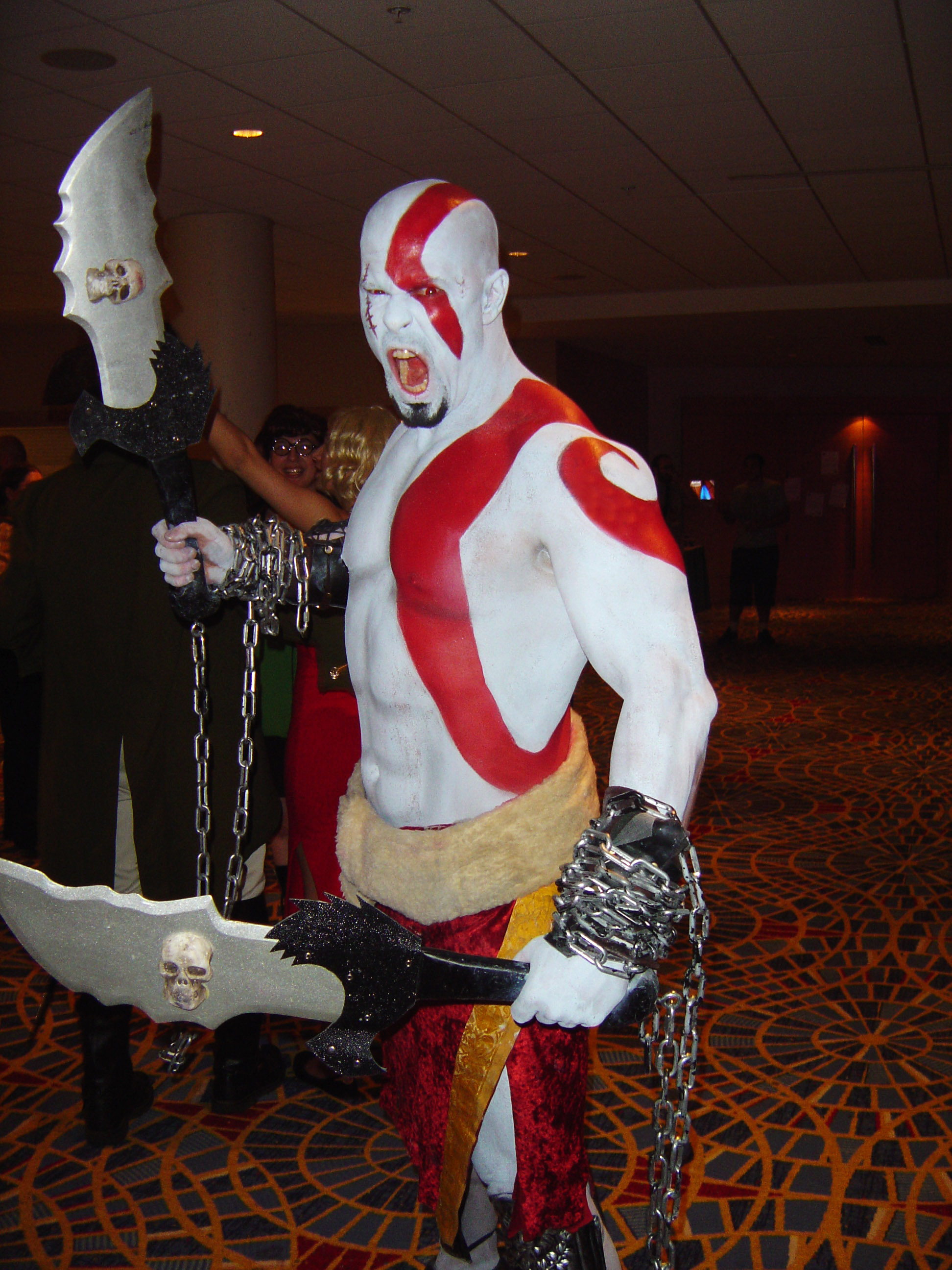 Cosplay of Kratos from God of War video game. Cosplayer Trent Henson.